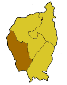 Diocese of Ossory in the Catholic Province of Dublin. This is a current map of the ecclesiastical province in the Catholic Church. The crosses mark where the current Cathedrals of each diocese is located. The specific dioceses are in different colours.